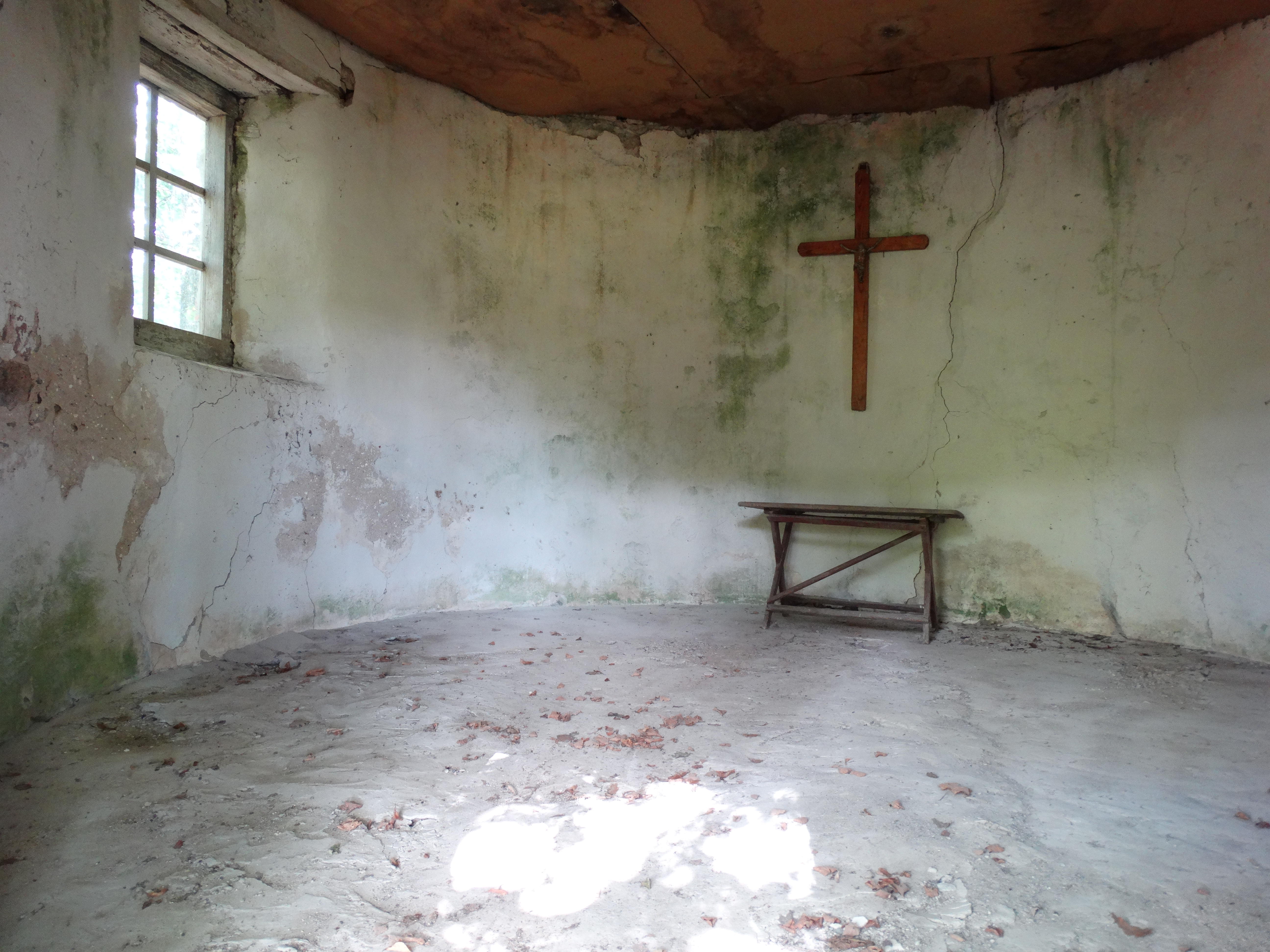 Chapel in Nariūnai, Zarasai District, Lithuania